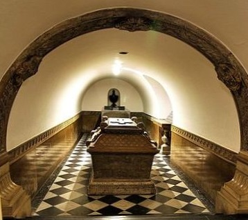 National Bards Crypt, Wawel Cathedral, Kraków